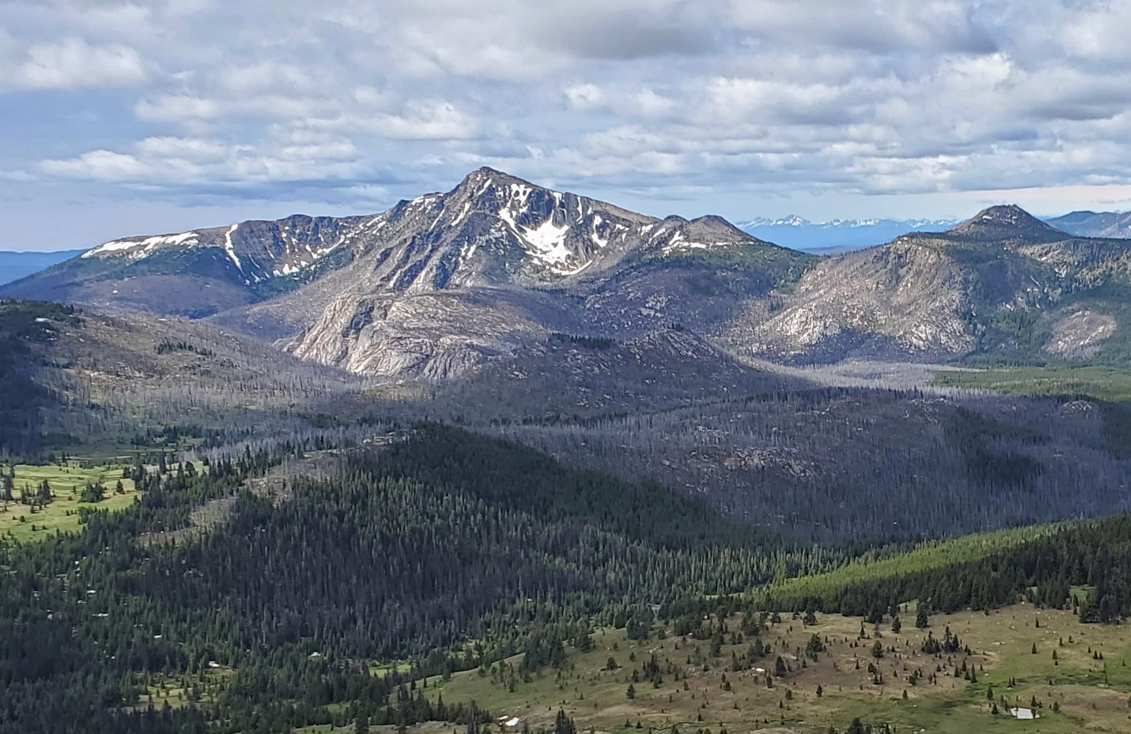 Windy Peak, north aspect from Armstrong Mountain